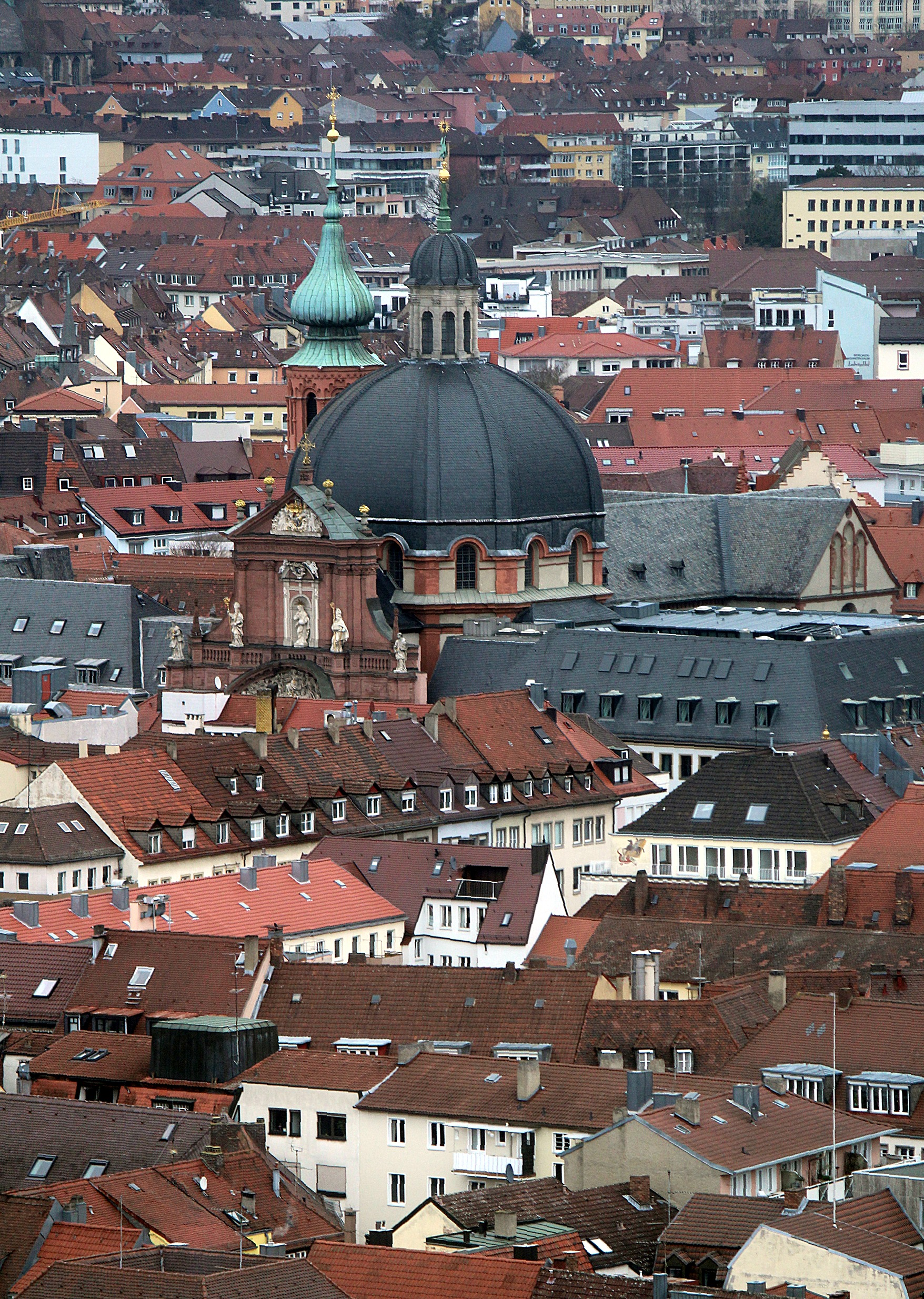 Würzburg, view from fortress Marienberg to the Neumünster Collegiate church